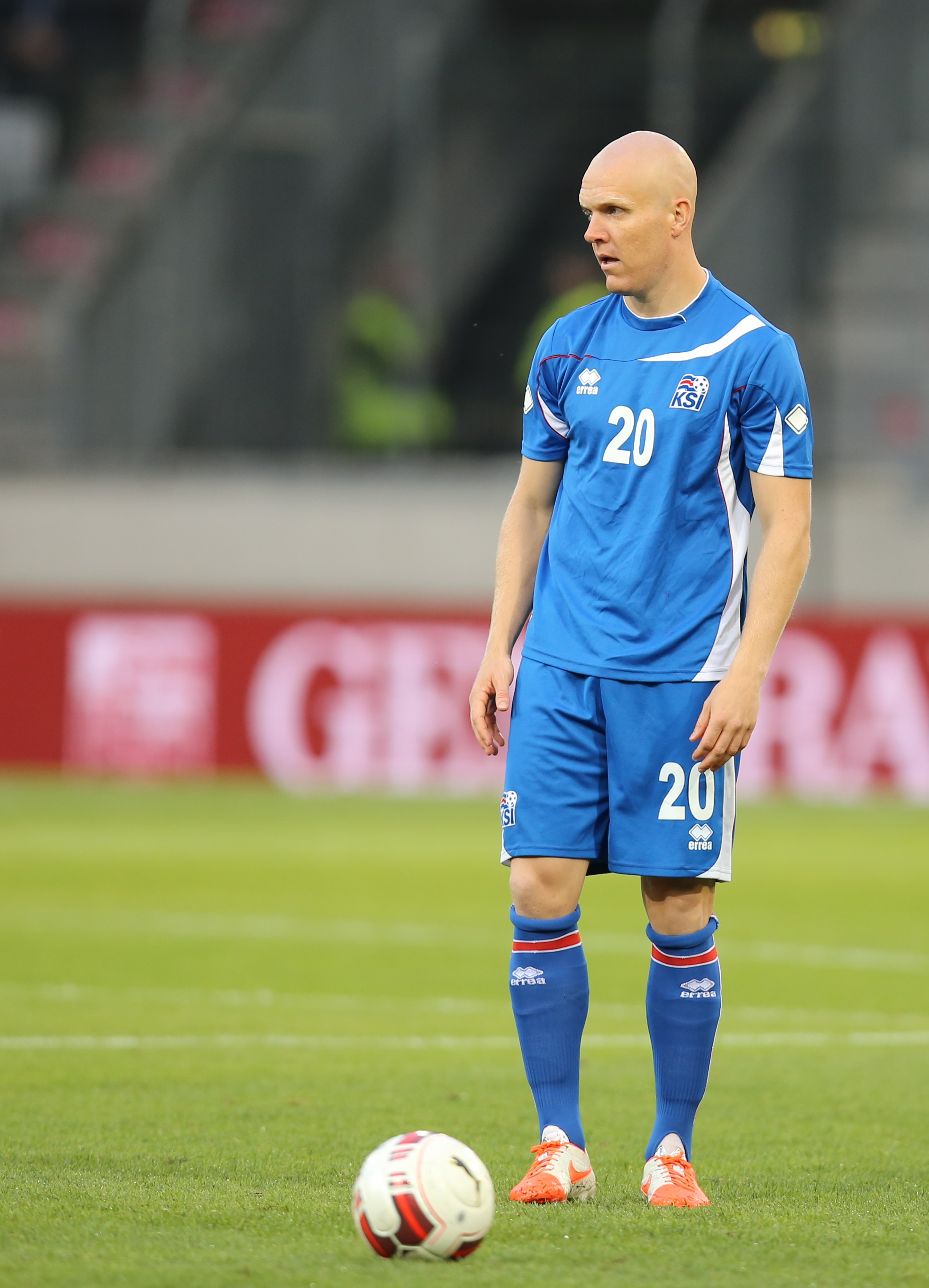 Austria - Iceland football match in Innsbruck, Austria on 2014-05-30. Austria in red, Iceland in blue.